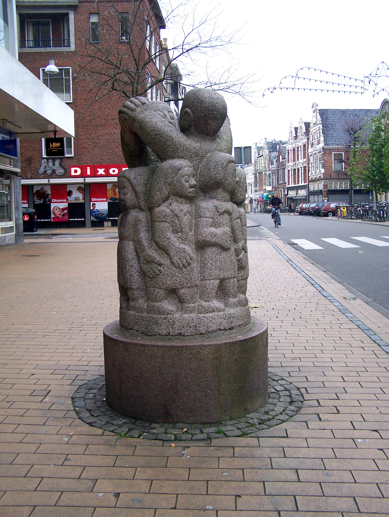 The statue Bro Bro Brille by Gunnar Westman. Made in 1957 and placed at the Oude Ebbingestraat. It was a gift from the V&D (a store). Bro Bro Brille is a Danish childsong/play. The statue was first exposed in Groningen in 1955 during a Danish exposition in the Stadspark (City park).